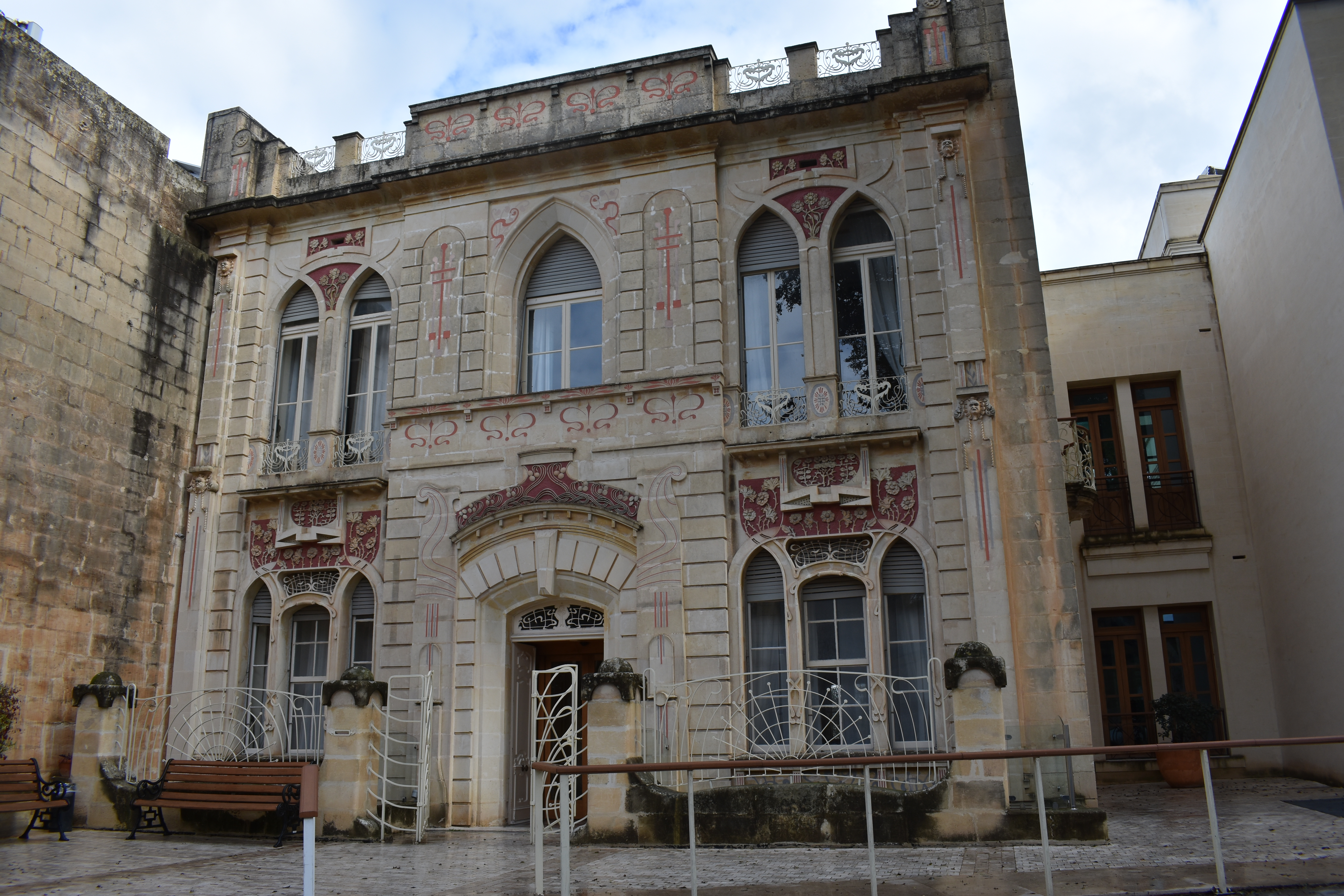 Rose Ville This media is about Maltese cultural property with inventory number 01151.